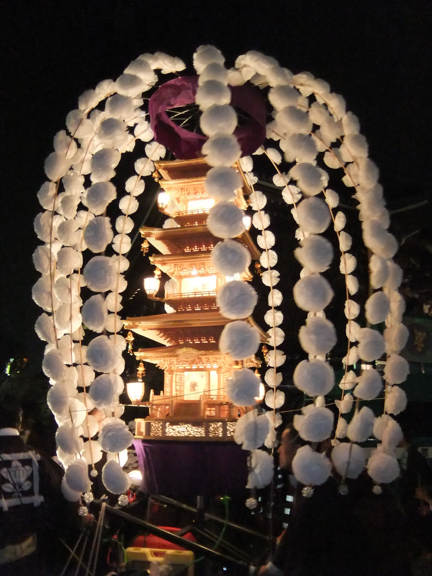 "Mandō" Lantern for Oeshiki ceremony at Ikegami Honmon-ji temple.